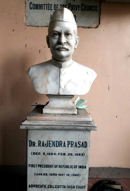 Statue of Dr. Rajendra Prasad, Calcutta High Court.